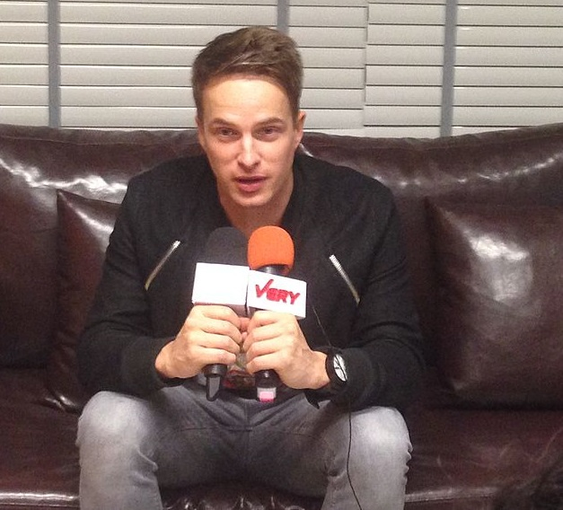 Dannic interviewed with VERY TV. This picture is a cropped version Dannic in Bangkok